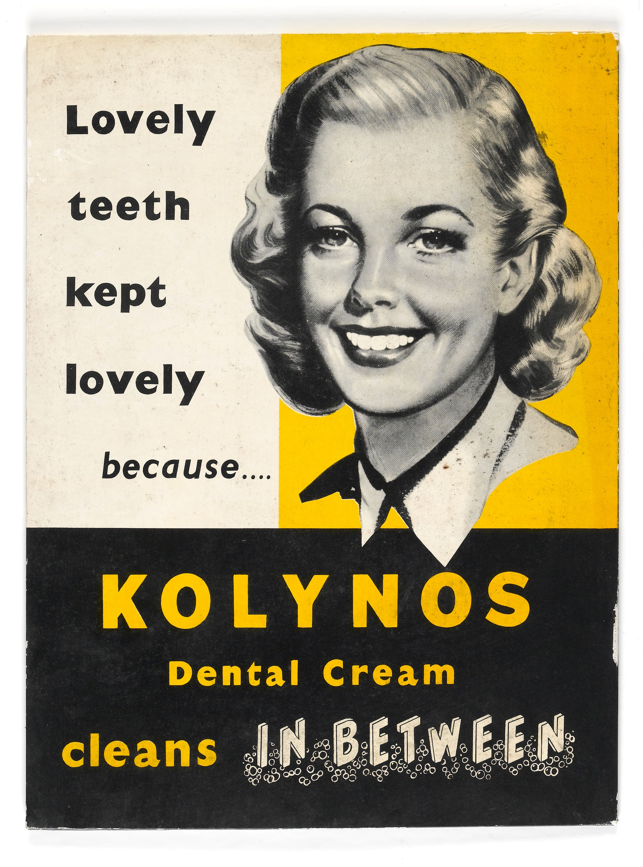 Show card advertising "Kolynos" Dental Cream toothpaste General Collections Keywords: Oral Hygiene; Product; Advertisements; Tooth; Toothpastes; Advertisement; Teeth; Kolynos.